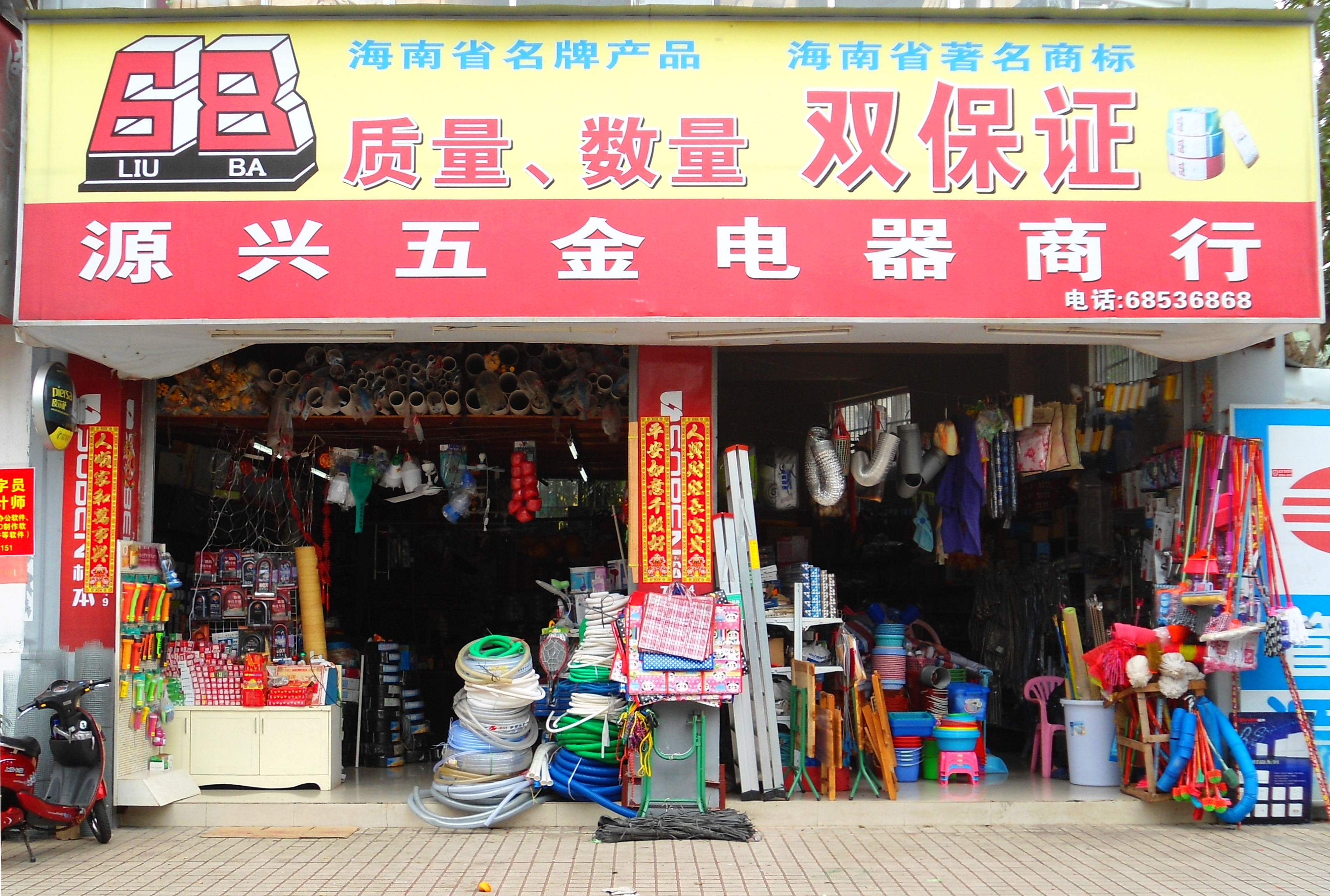 A typical hardware store in China. Photo taken in Haikou, Hainan Province, People's Republic of China.